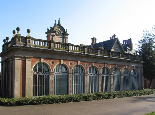 Derby - Arboretum Lodge